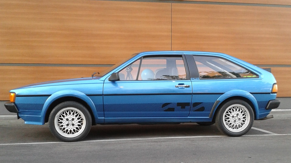 1983 Scirocco GTS